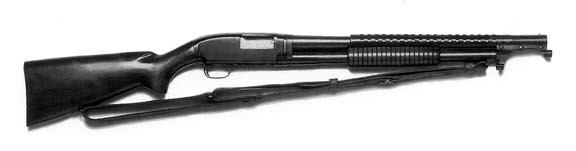 US Army technical manual TM 9-2117, July 1957